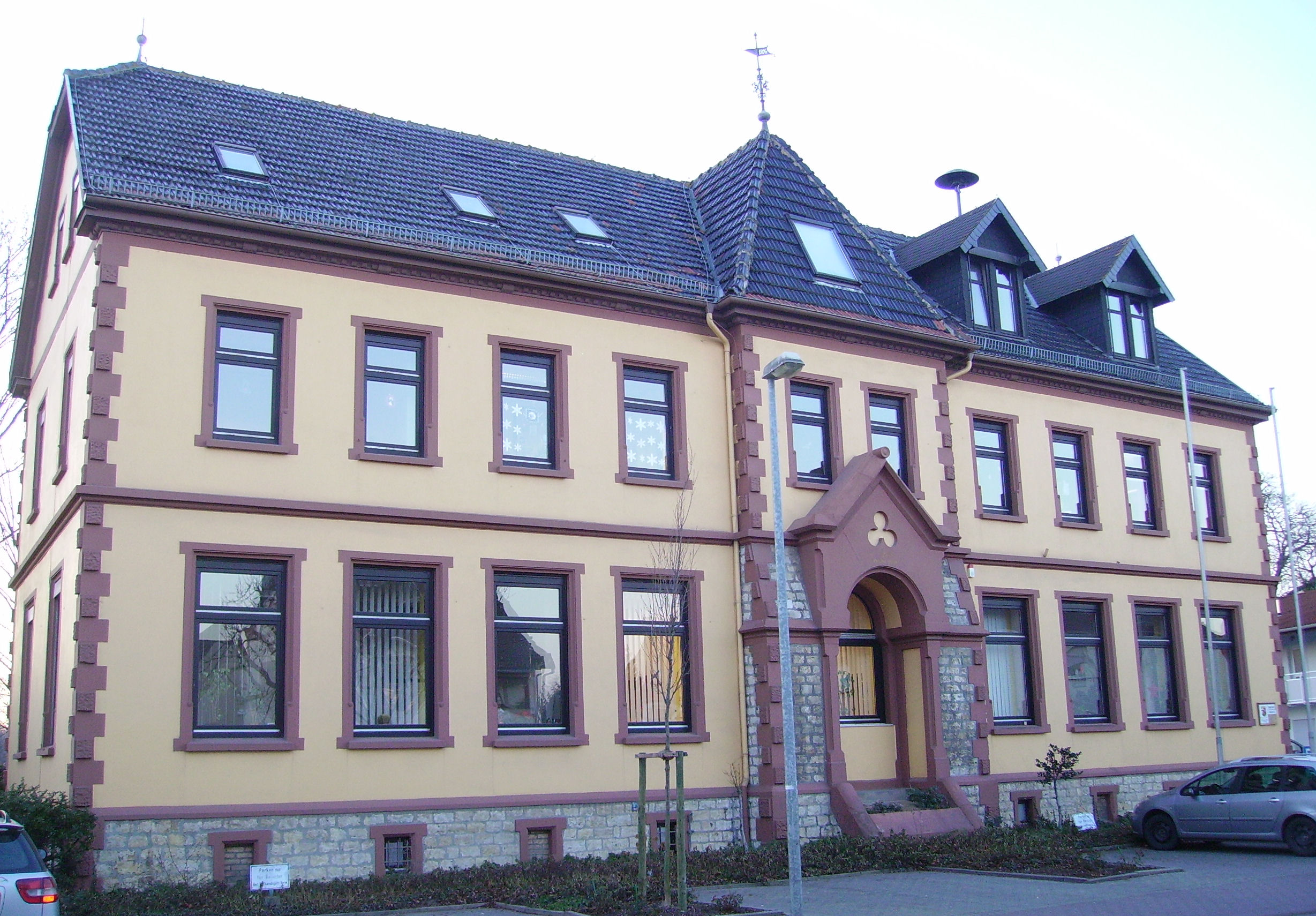 Westhofen in Rhineland-Palatinate, Germany